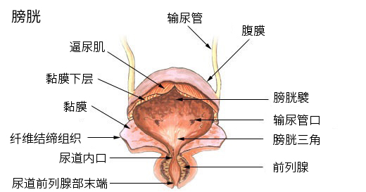 Anatomy of Urinary bladder